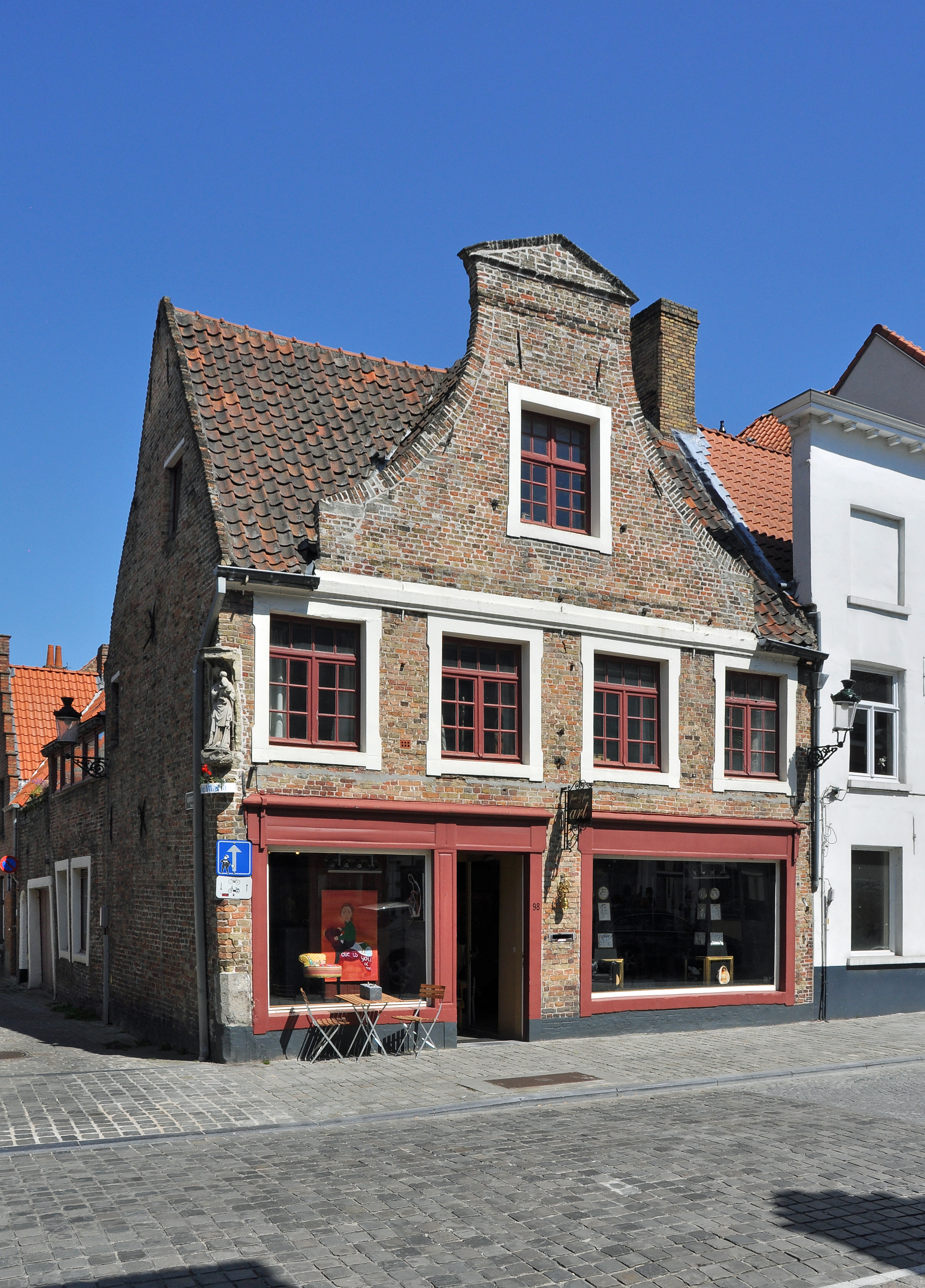 Bruges (Belgium): house Ezelstraat #98